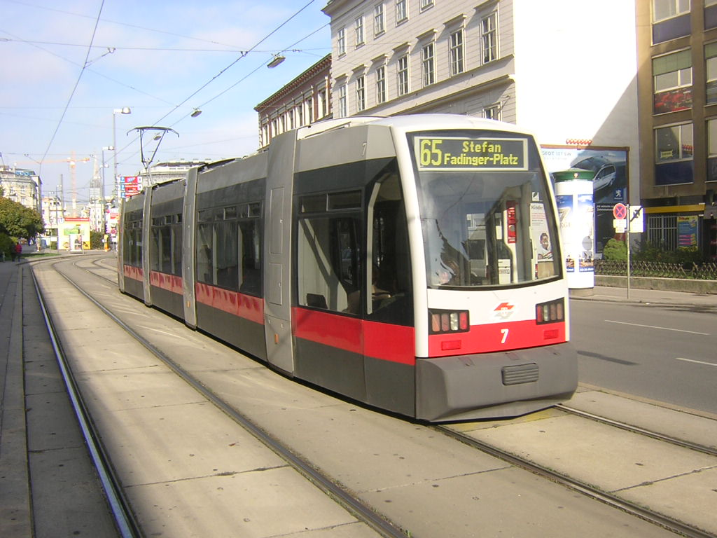 Ultra Low Floor tram See other pictures: metros.hu